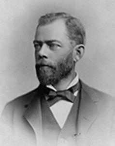 Photograph of Hazad Stevens, date unknown, but taken prior to 1923 because the subject died in 1918.